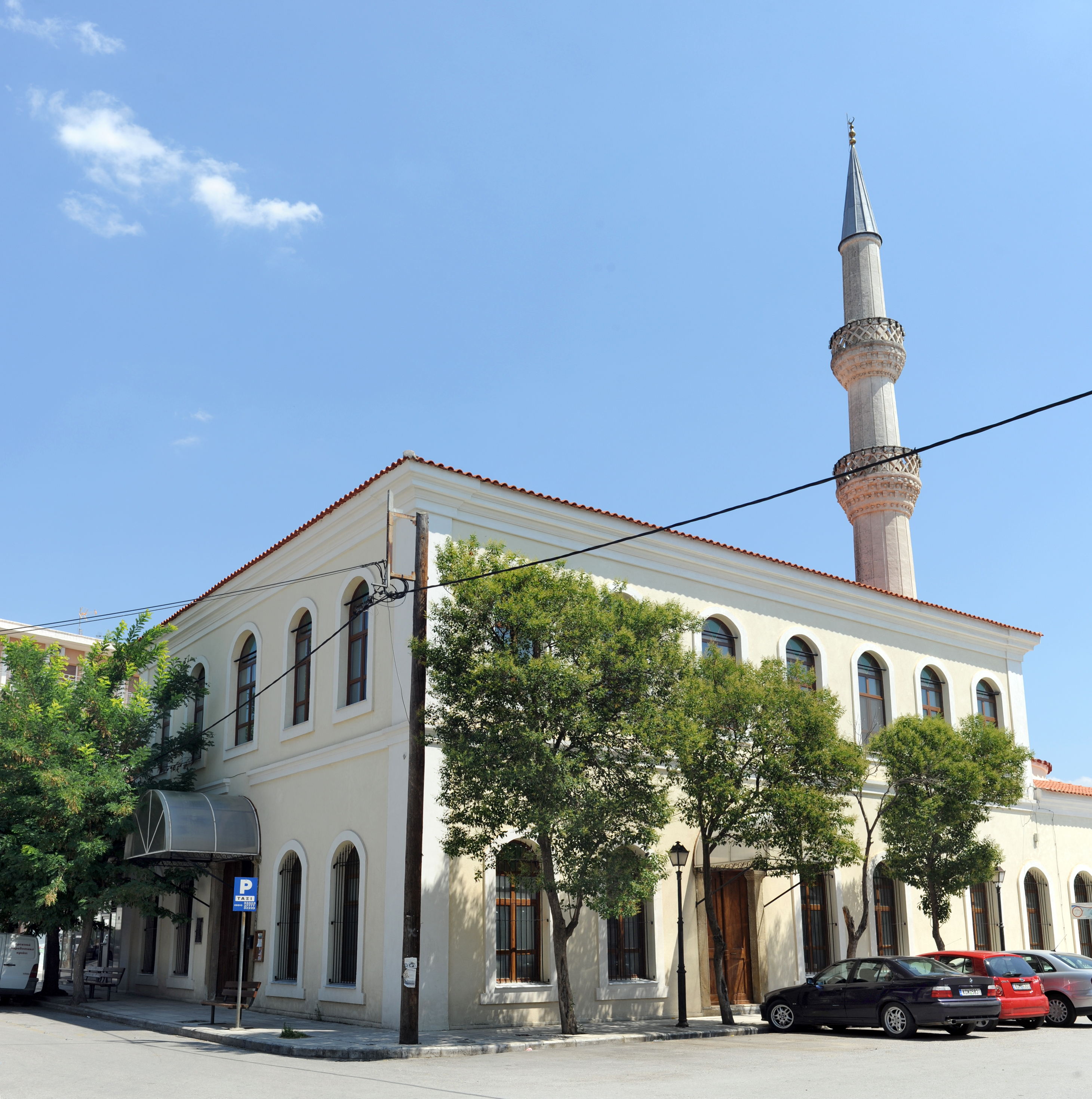 Eski Mosque (Old mosque), Komotini, Thrace, Rhodope, Greece.